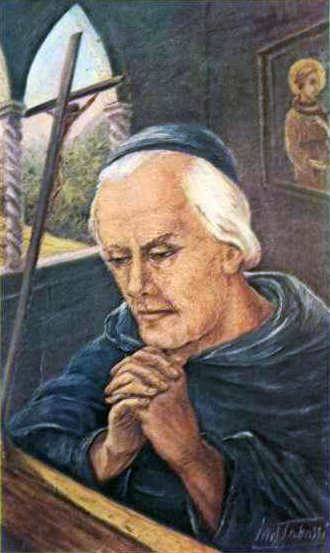 Tommaso da Celano (1200 ca - 1265 ca)